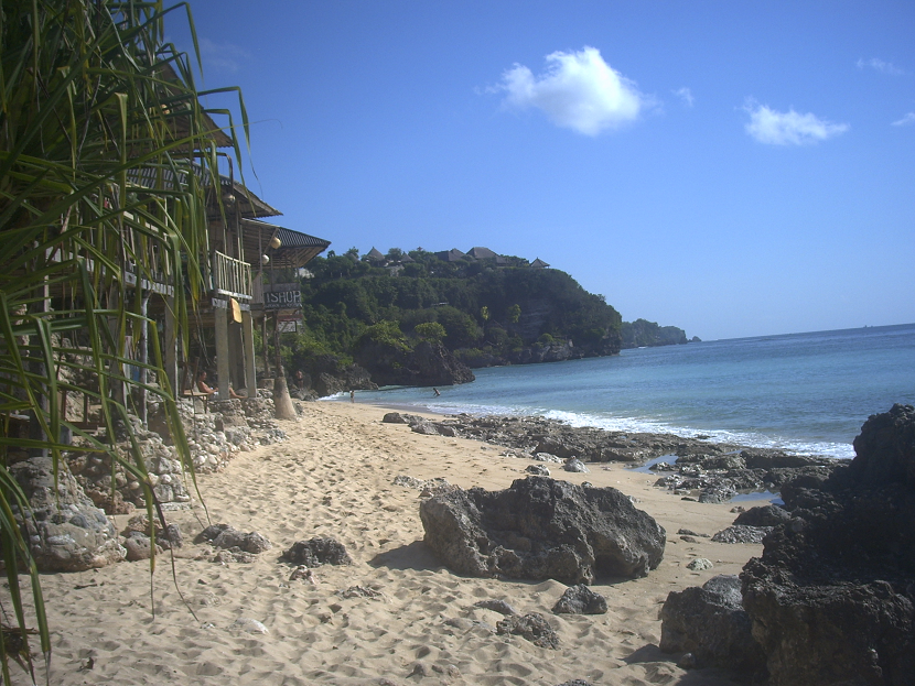 Bingin Beach just 1 kilometer from New Kuta Beach